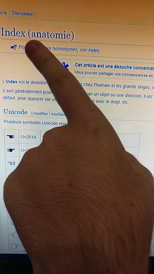 The Index finger